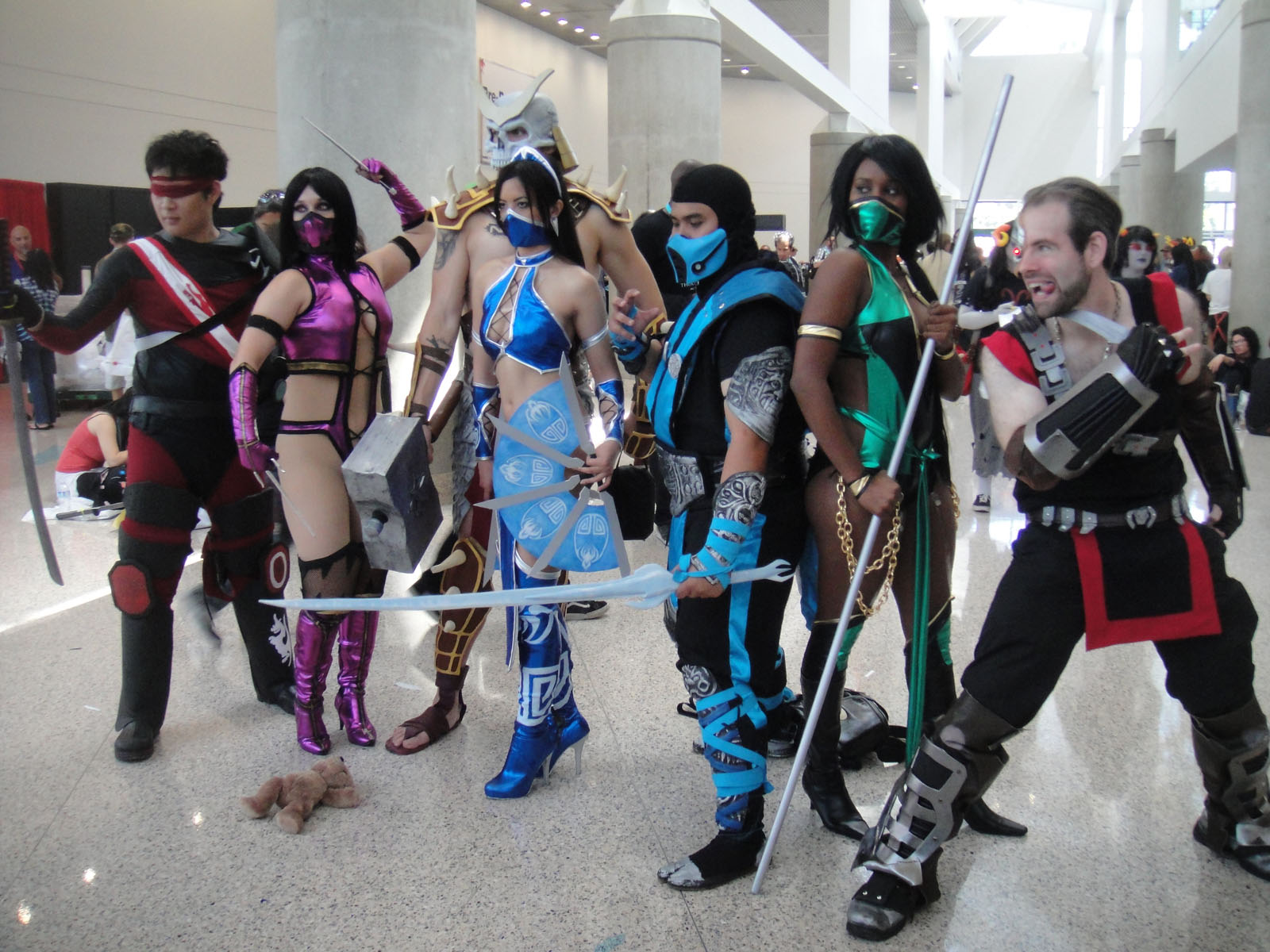 Cosplay of Mortal Kombat characters at Anime Expo 2012.